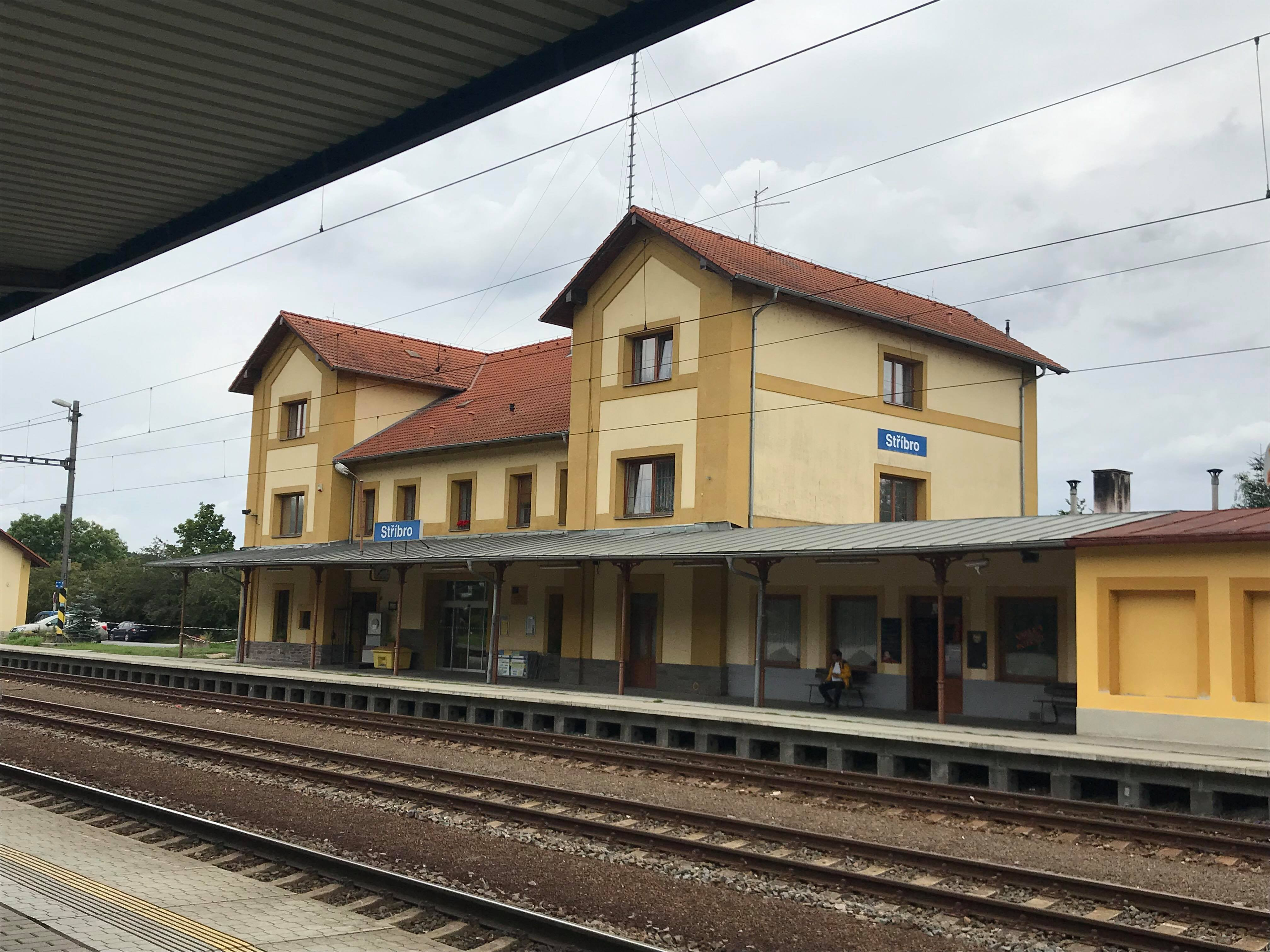 Střibro train station